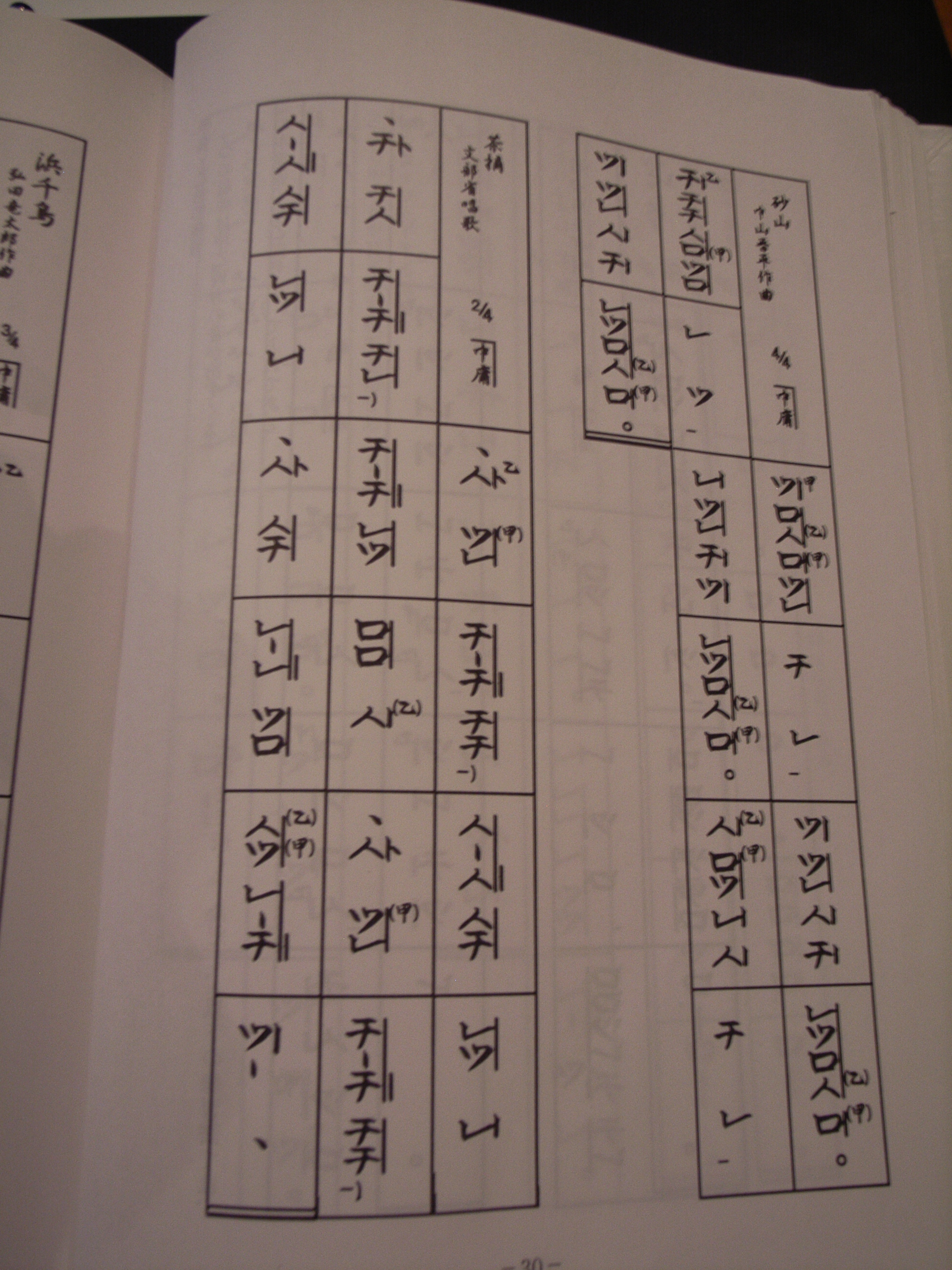 Shakuhachi uses its own musical notation